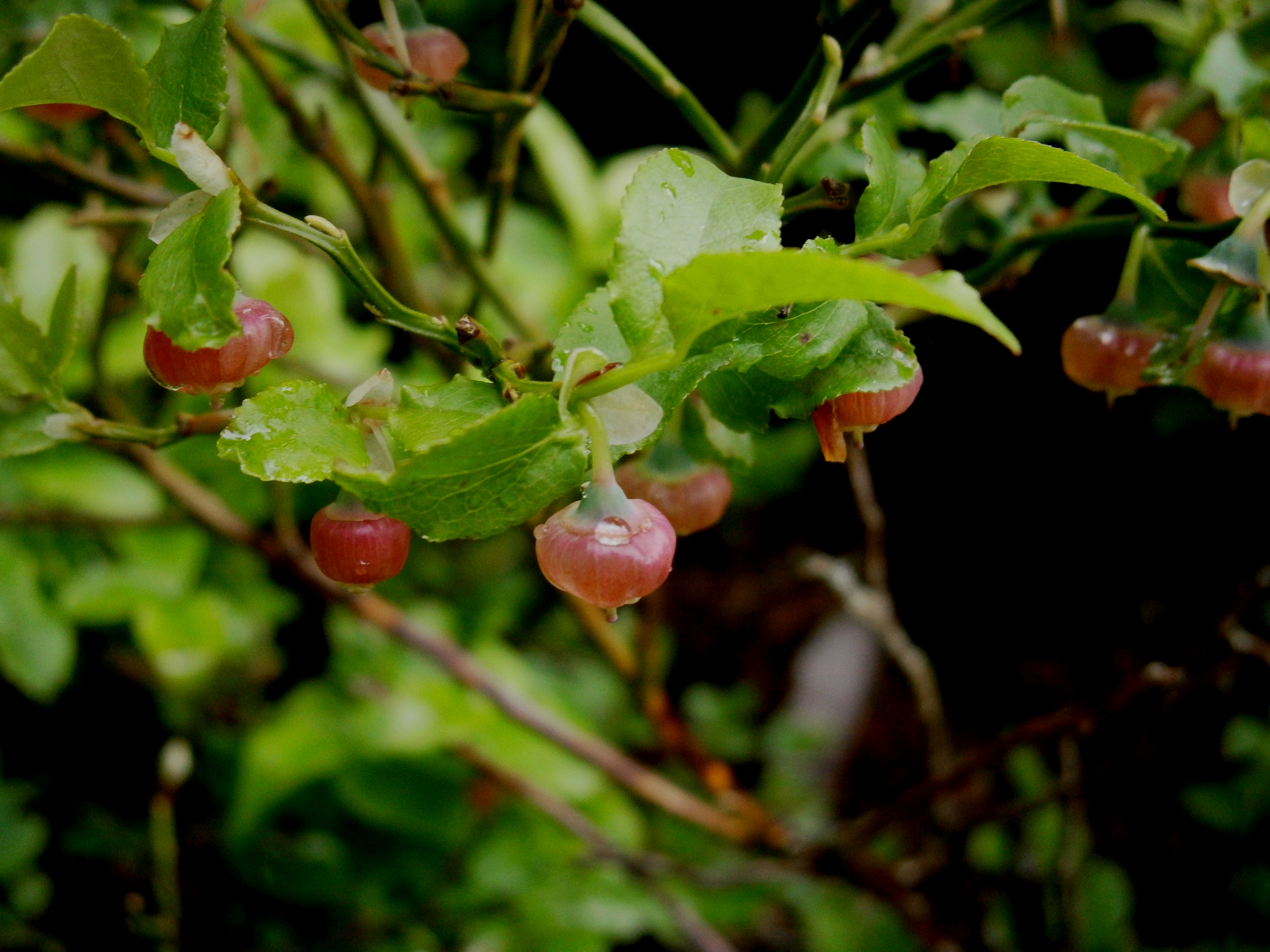 Vaccinium myrtillus close-up